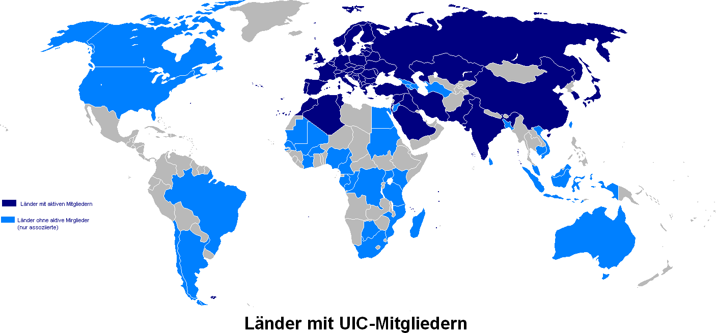 Countries with UIC-members.